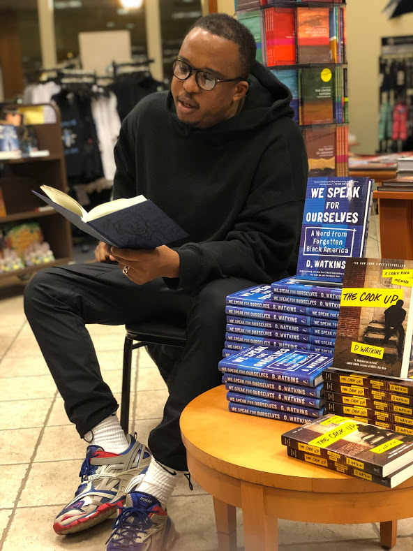 A live reading with author D. Watkins of his new book We Speak For Ourselves